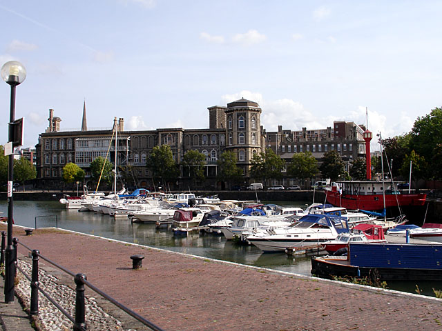 Bathurst Basin and the Bristol General Hospital. Looking across the Bathurst Basin towards the Bristol General Hospital on the eastern side of the basin. The basin was constructed as part of the floating harbour (1804-1809) designed by William Jessop and provided a link between the New Cut of the River Avon and the "new" floating harbour. It was named after Charles Bragge (MP for Bristol), who changed his name to Bathurst (his mothers family). The hospital was built in 1858 on the site of the Bathurst Iron Works.